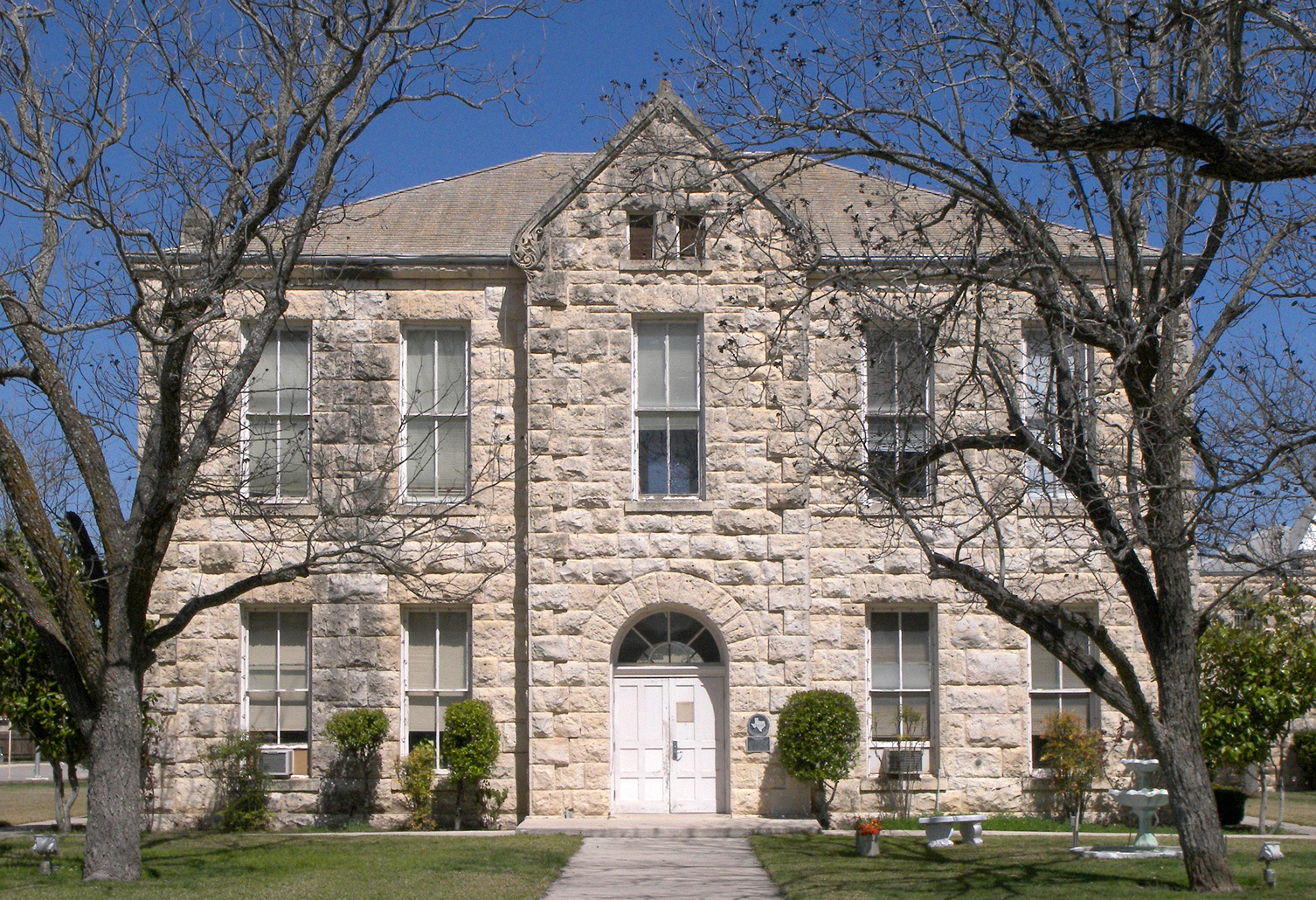 The Edwards County, Texas courthouse located at 100 W. Main St, Rocksprings, Texas, United States. It was designated a Recorded Texas Historic Landmark in 1973 and listed on the National Register of Historic Places on November 7, 1979.